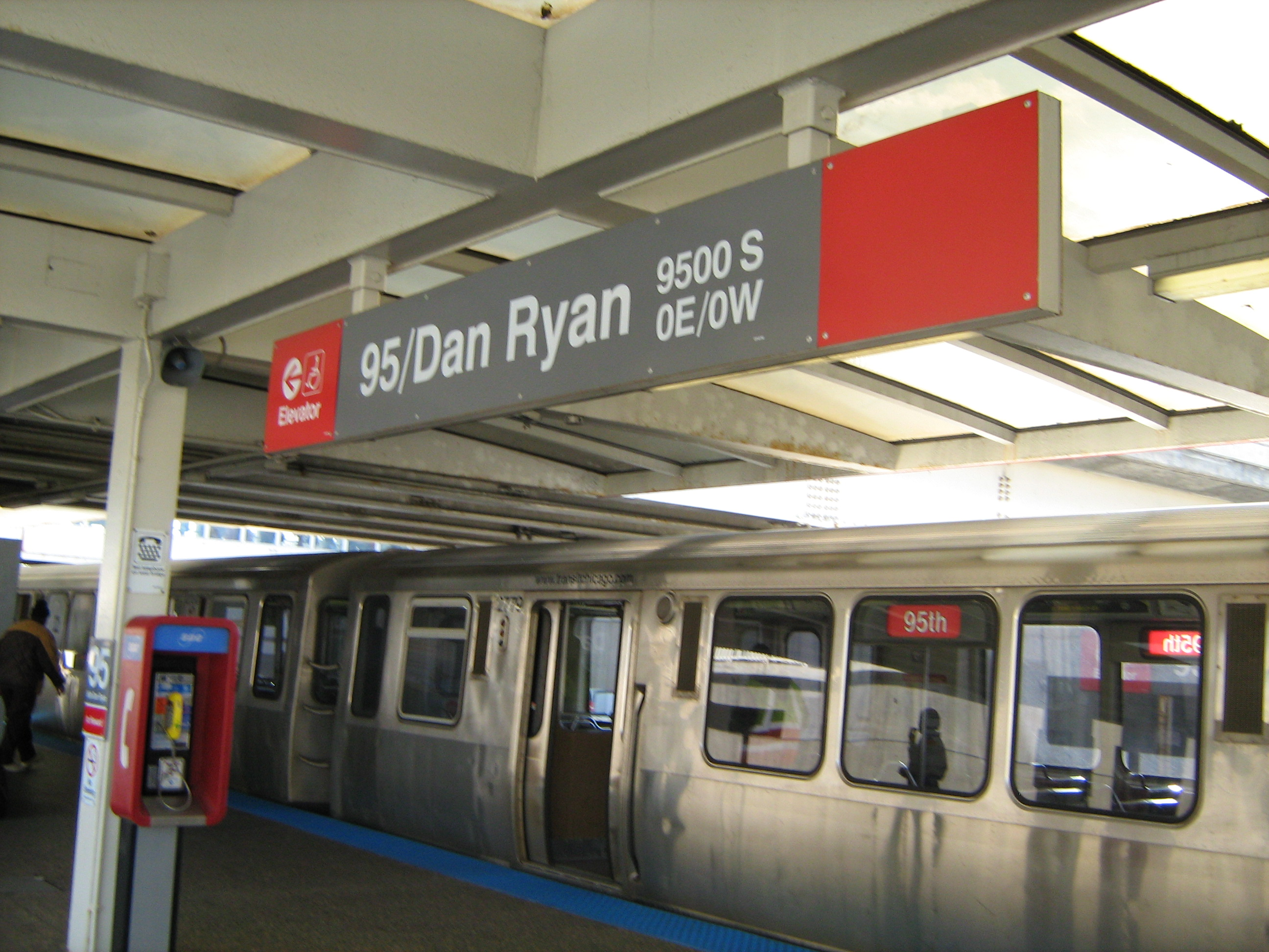 95th Dan Ryan CTA Station